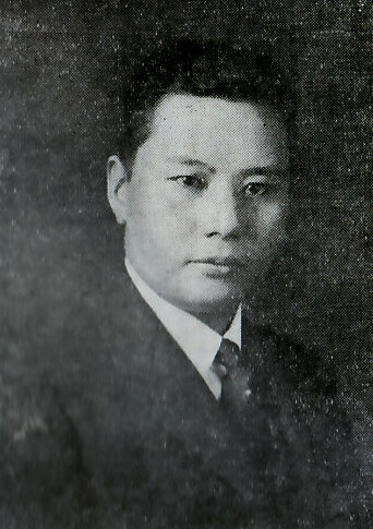 Zhang Qun (Chang Ch'ün), Yuejun (1889-1990)